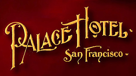 Logotype used by the original Palace Hotel (1875-1906) in San Francisco.